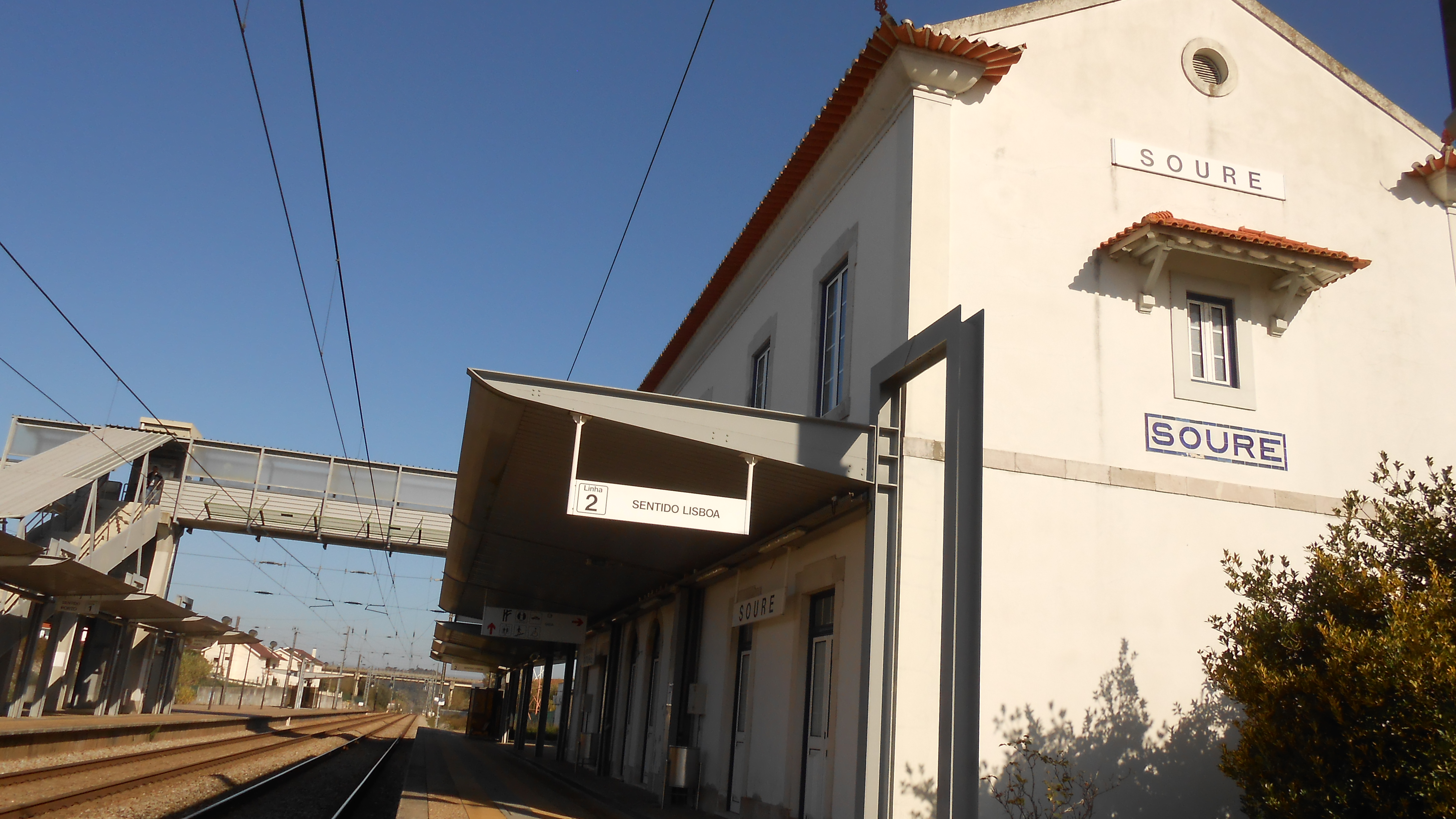 The Soure train station, nowerdays working as a halt only.